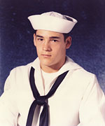 Robert Stethem. This is an official Dept of Defense photograph.